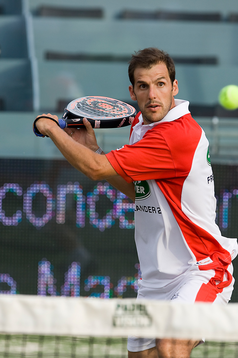 Photo of Juan Martín Díaz